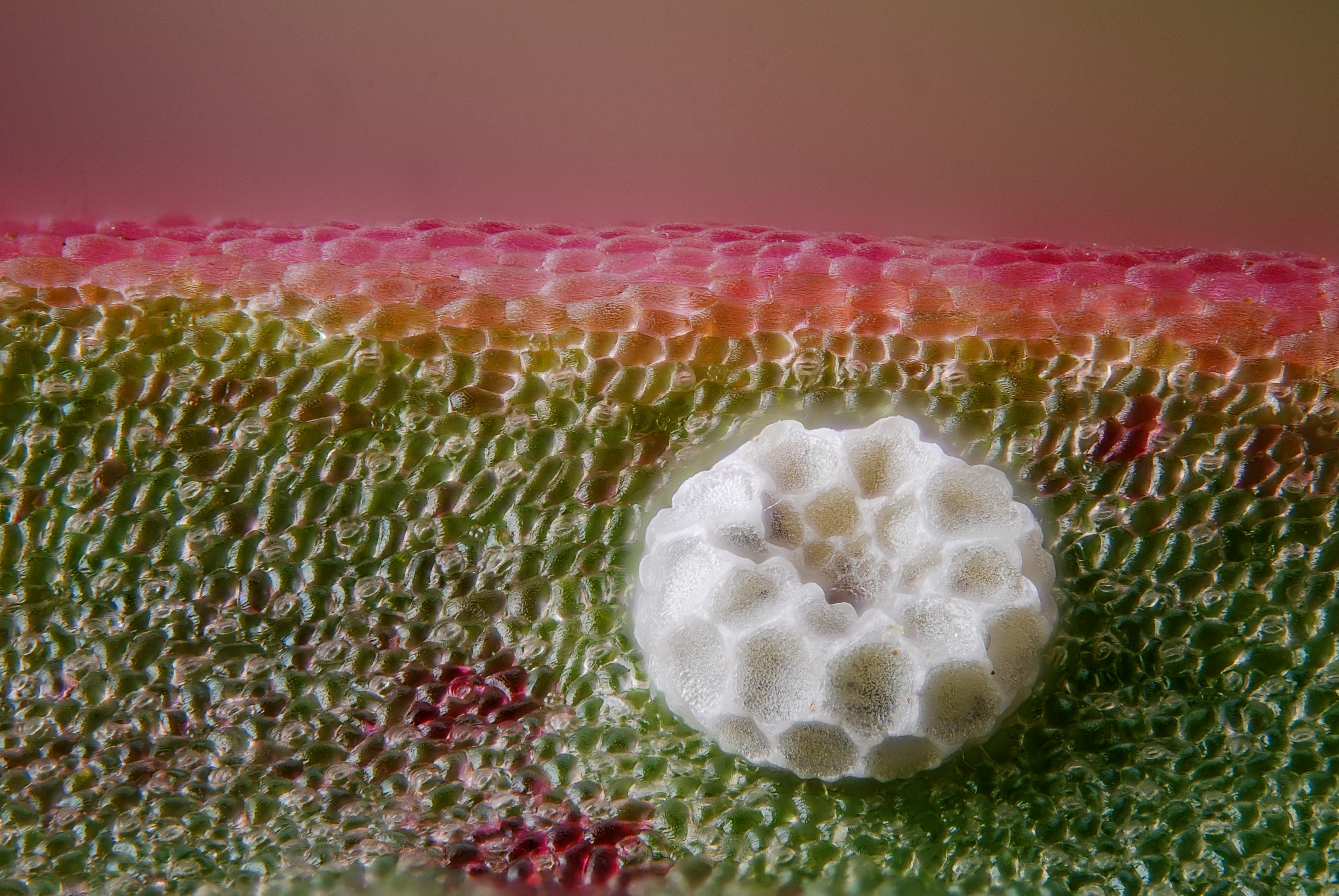 Egg of the butterfly Lycaena phlaeas on a leaf of Rumex acetosella. Technical settings : focus stack of 34 images microscope objective (Nikon achromatic 10x 160/0.25) on bellow